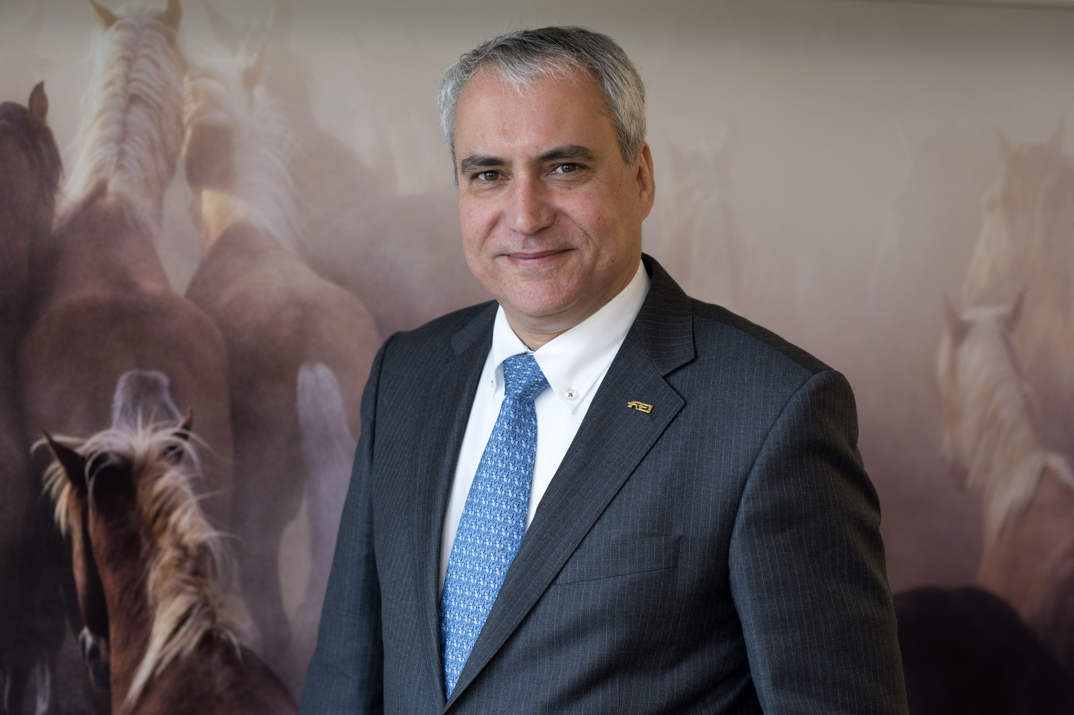 FEI President elected at FEI General Assembly in December 2014 in Baku (AZE)